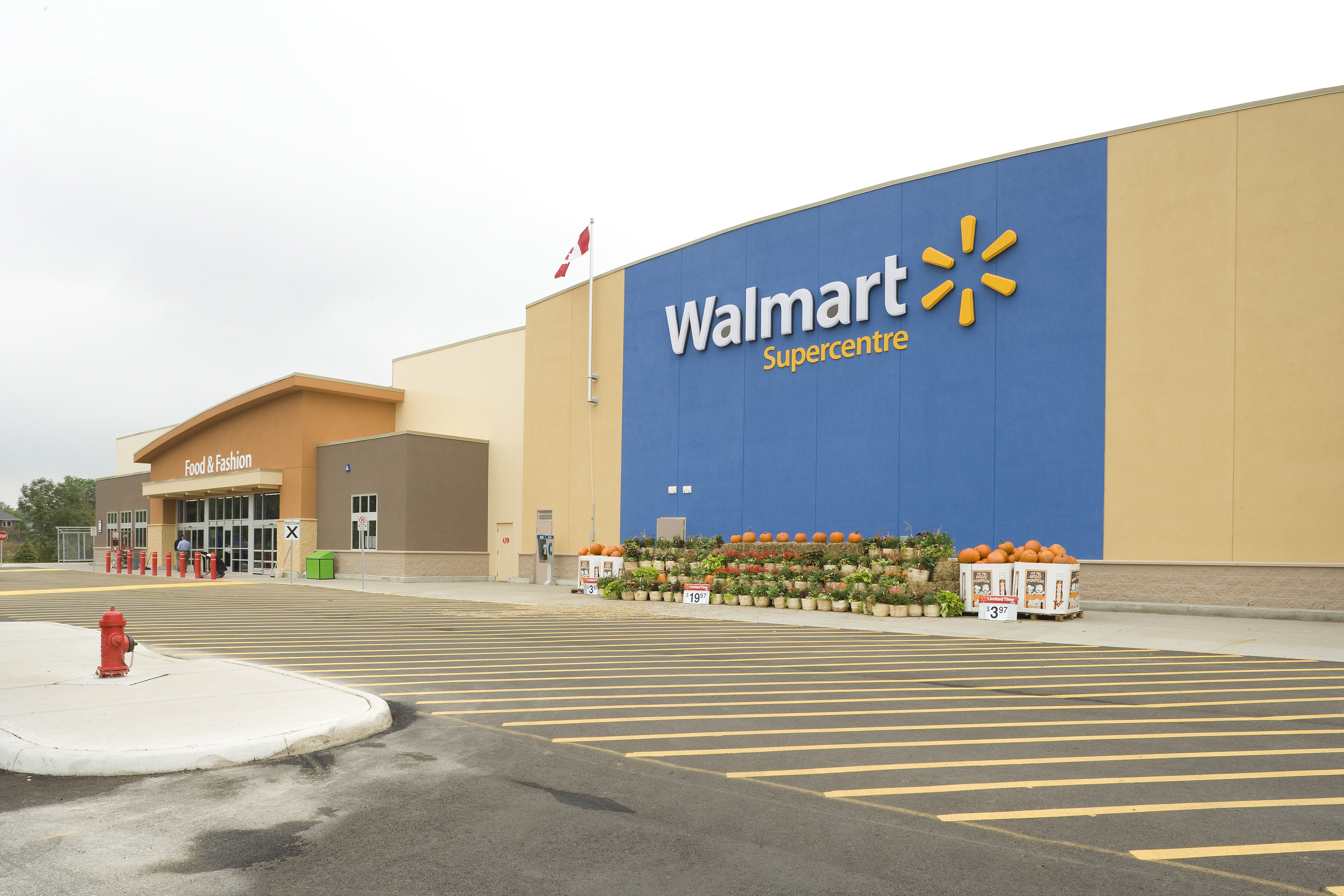 New style of Walmart Supercentres in Canada